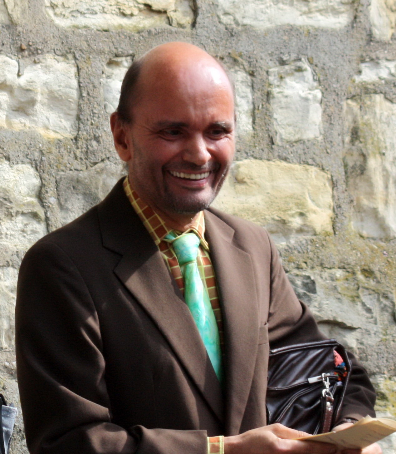 Michal Stein during unveiling ceremony in June 2011.